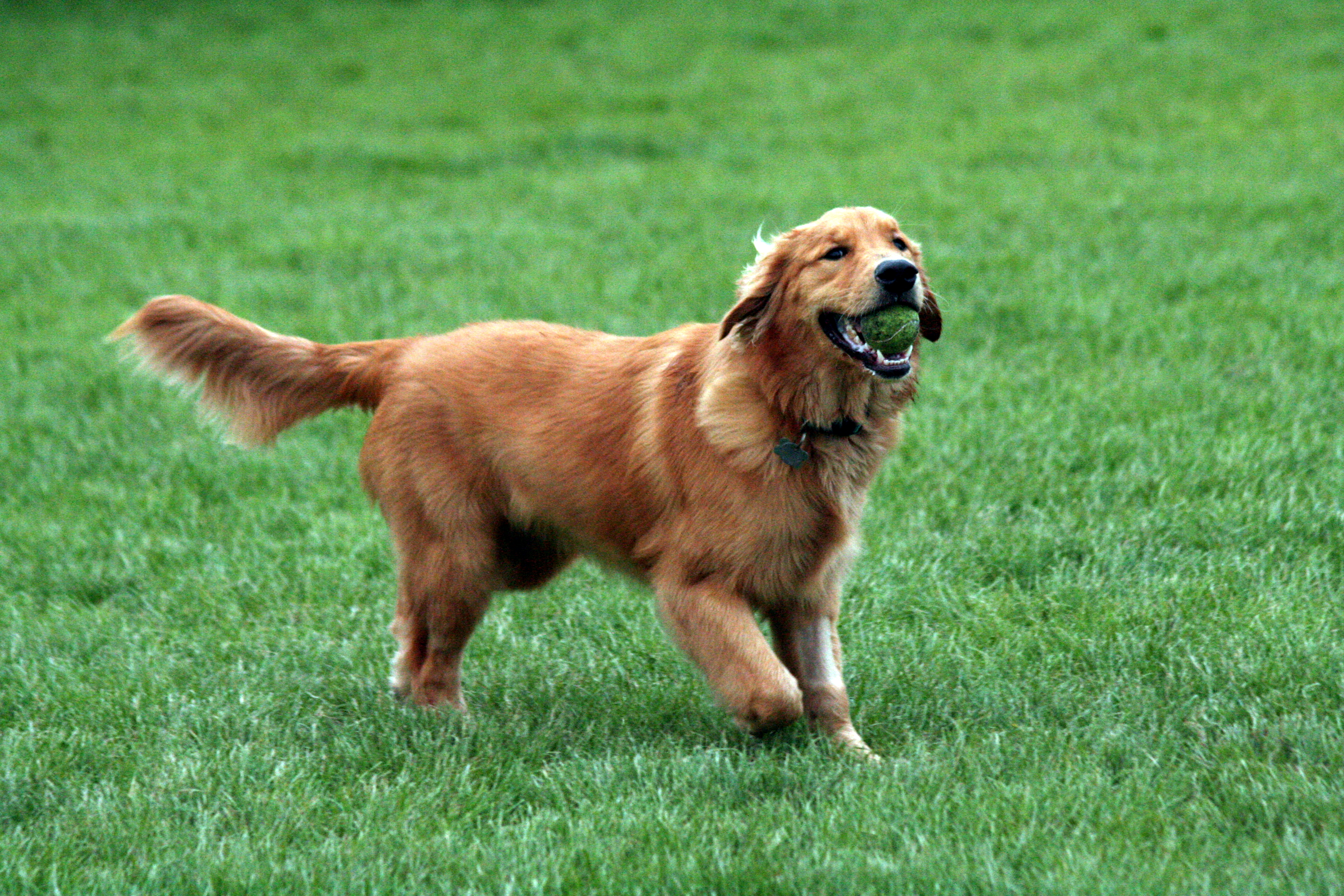 A male Golden Retriever with a tennis ball.Prancing Puppy